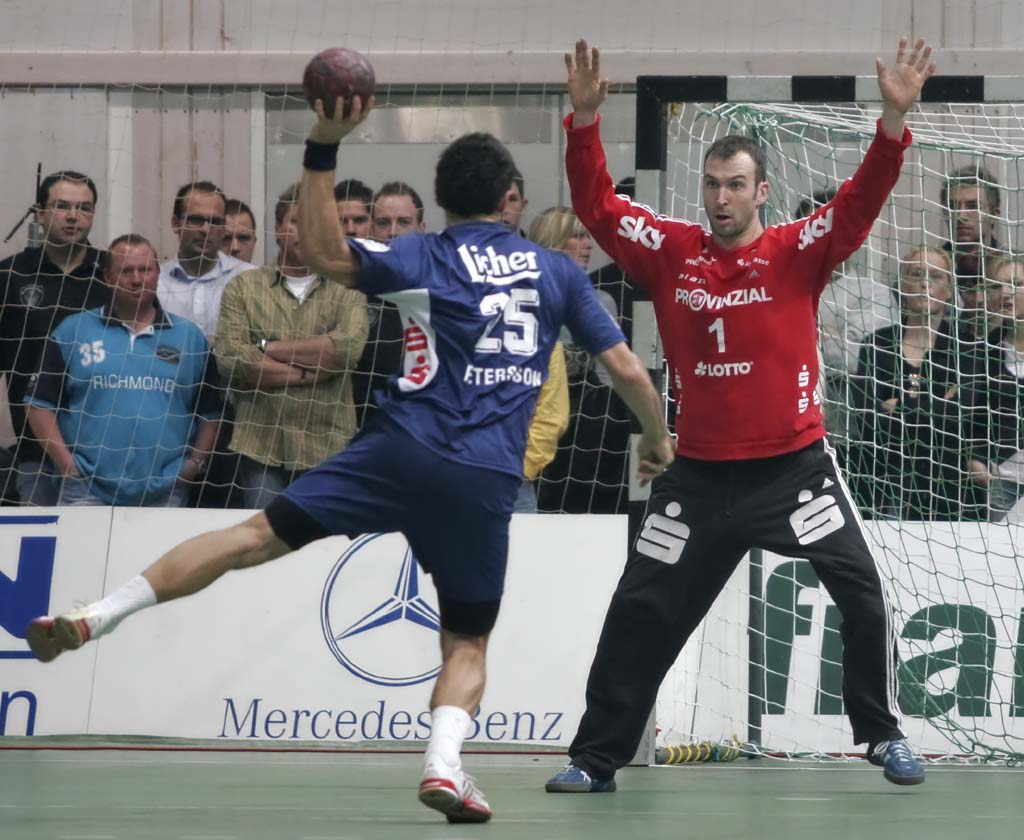 Alexander Petterson (in blue) and Thierry Omeyer (Goalkeeper), on December 30th 2006 in Aschaffenburg (Germany), during the game TV Grosswallstadt - THW Kiel (25:30) performing a 7m penalty shot.